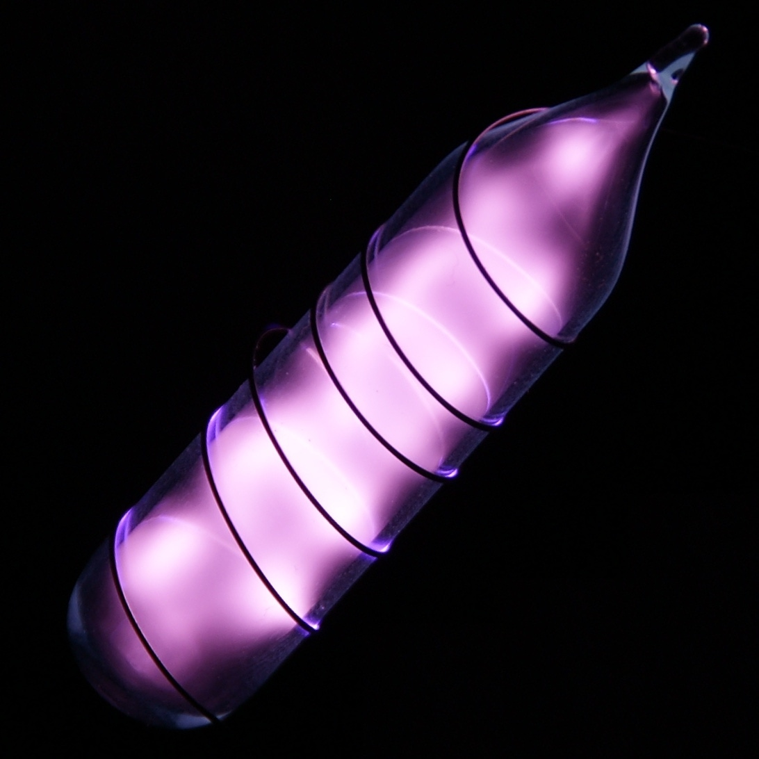 Vial of glowing ultrapure helium. Original size in cm: 1 x 5